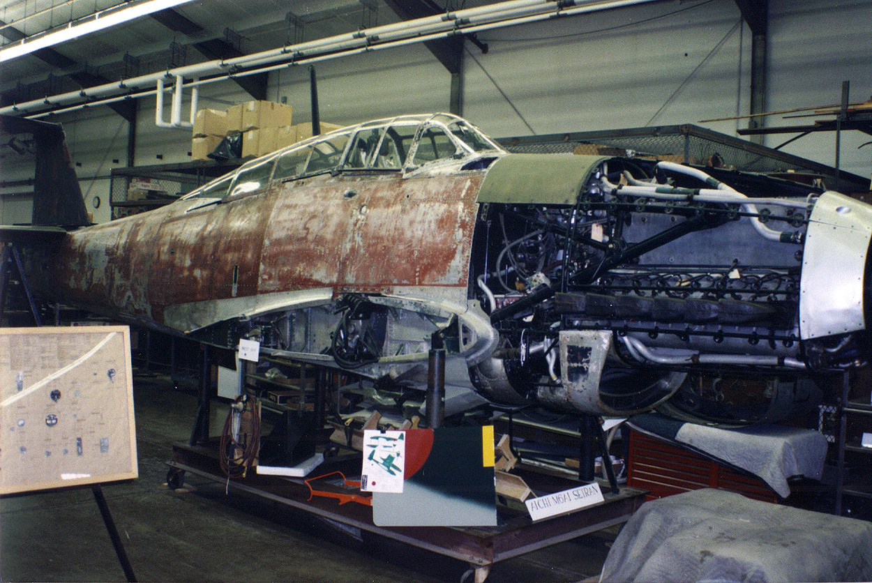 Aichi M6A1 undergoing restoration at the Paul E. Garber Preservation, Restoration, and Storage Facility, located in Suitland, Md 1998